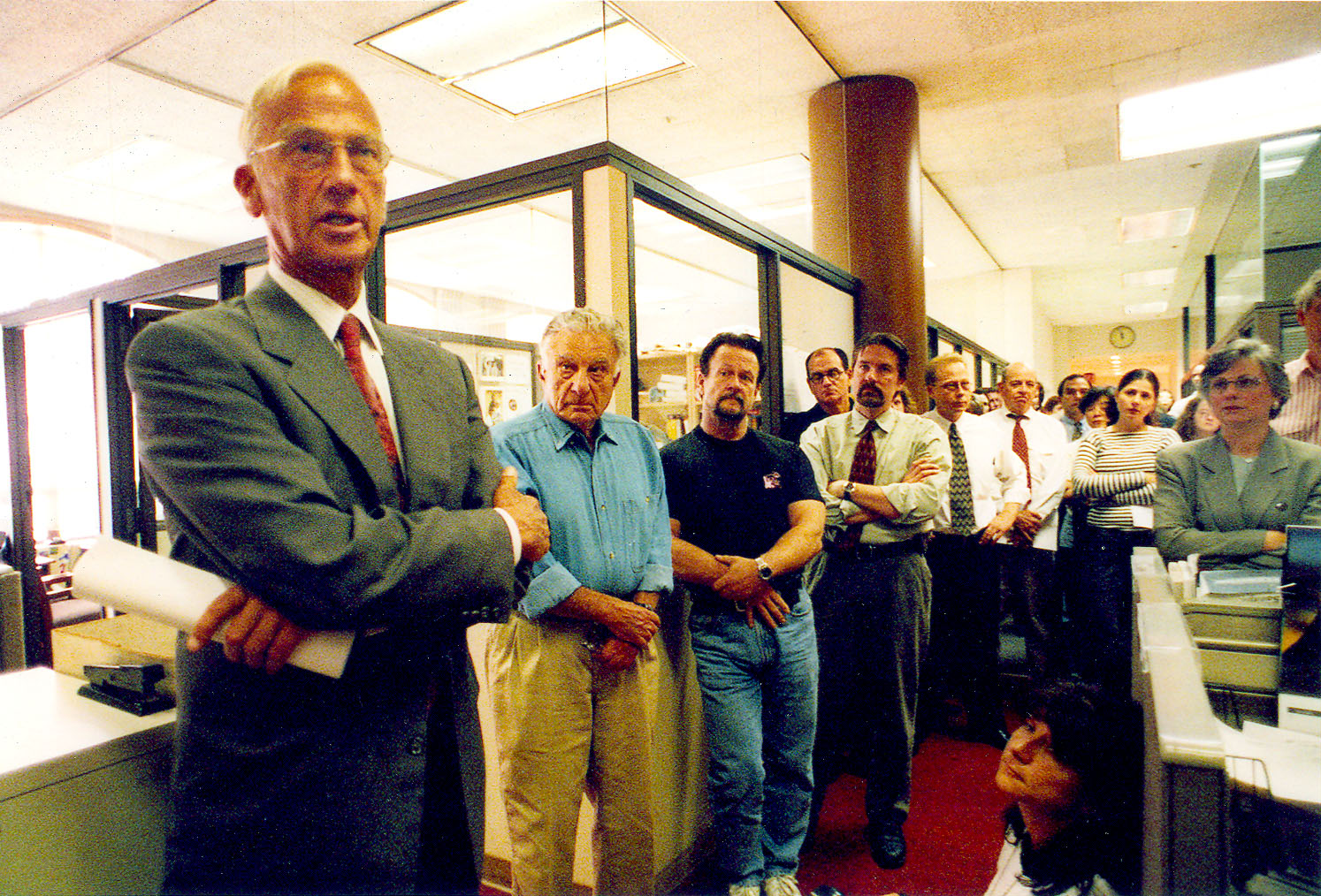 San Francisco Chronicle CEO John Sias announces the sale of the SF Chronicle to the Hearst Corporation August 6, 1999. From left: Sias, William German, Ron Mann, Scott Sommerdorf, Mark Lundgren, Kevin Leary and at far right with arms crossed is Pam Reasner in the Chronicle newsroom.Photographer Kat Wade is seated on the floor at right. Photograph by Nancy Wong.